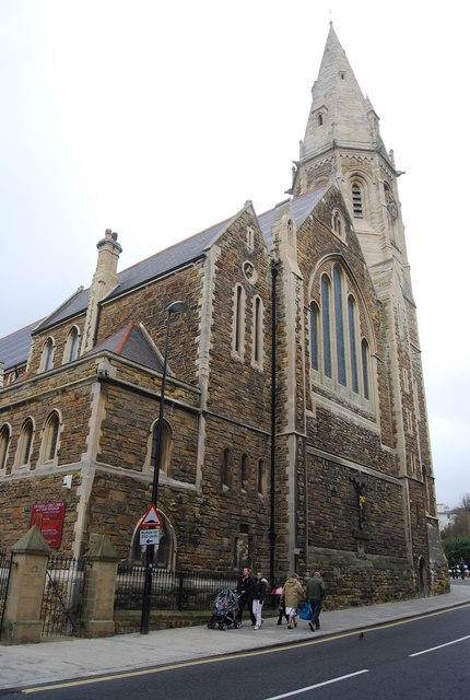 Christ Church & St Mary Magdalen Church, London Rd